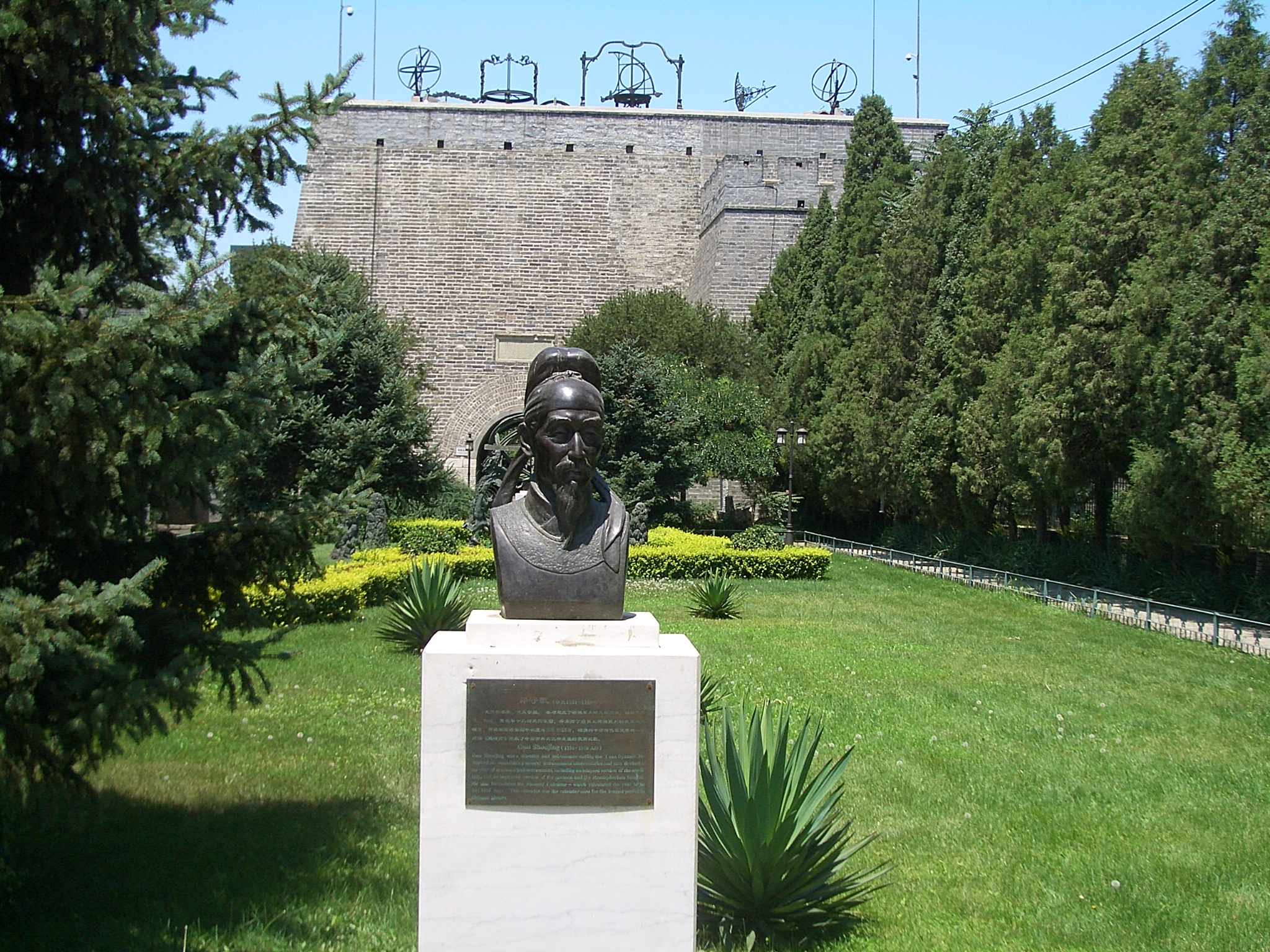 On the grounds of Beijing's Ming-era observatory